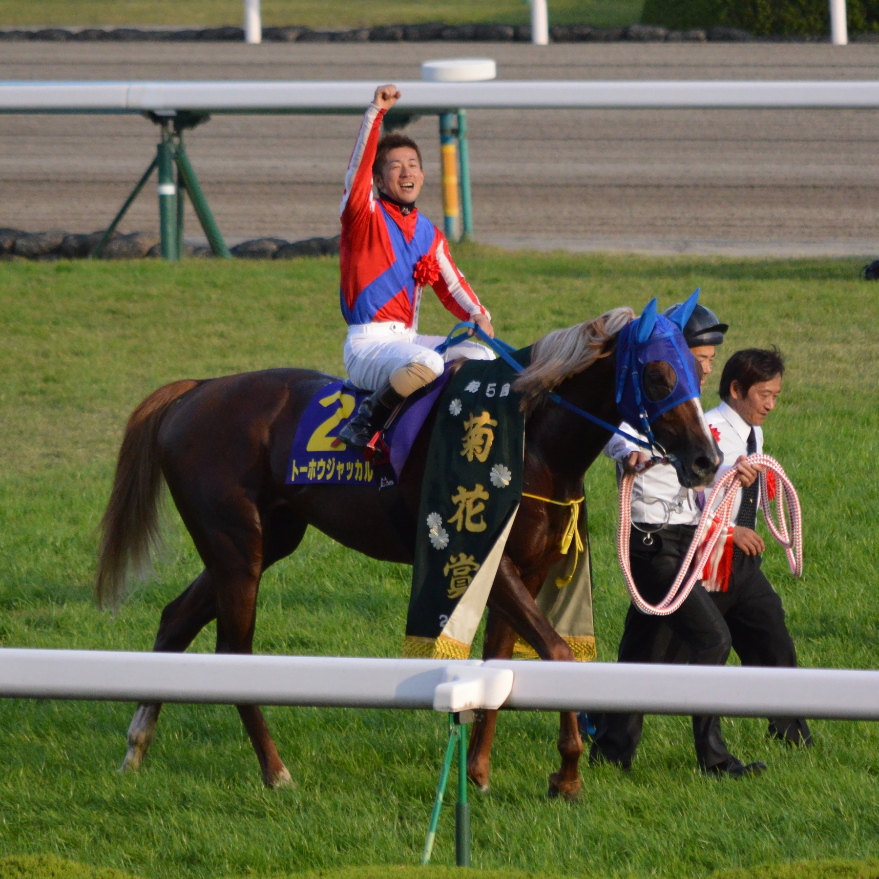 Japanese race horse Toho Jackal at Kyoto racecourse. Kyoto (JPN) 26 Oct 2014 Kikuka Sho (Japanese St.Leger) (Grade 1) (3yo Colts & Fillies) (Turf) 1m7f Firm RankHorse NameOddsAgeWgtTrainerJockey1stToho Jackal (JPN)59/10C39-0Kiyoshi TaniManabu Sakai2ndSounds Of Earth (JPN)76/10C39-0Kenichi FujiokaMasayoshi Ebina3rdGold Actor (JPN)186/10C39-0Tadashige NakagawaHayato Yoshida4th-18th/omission